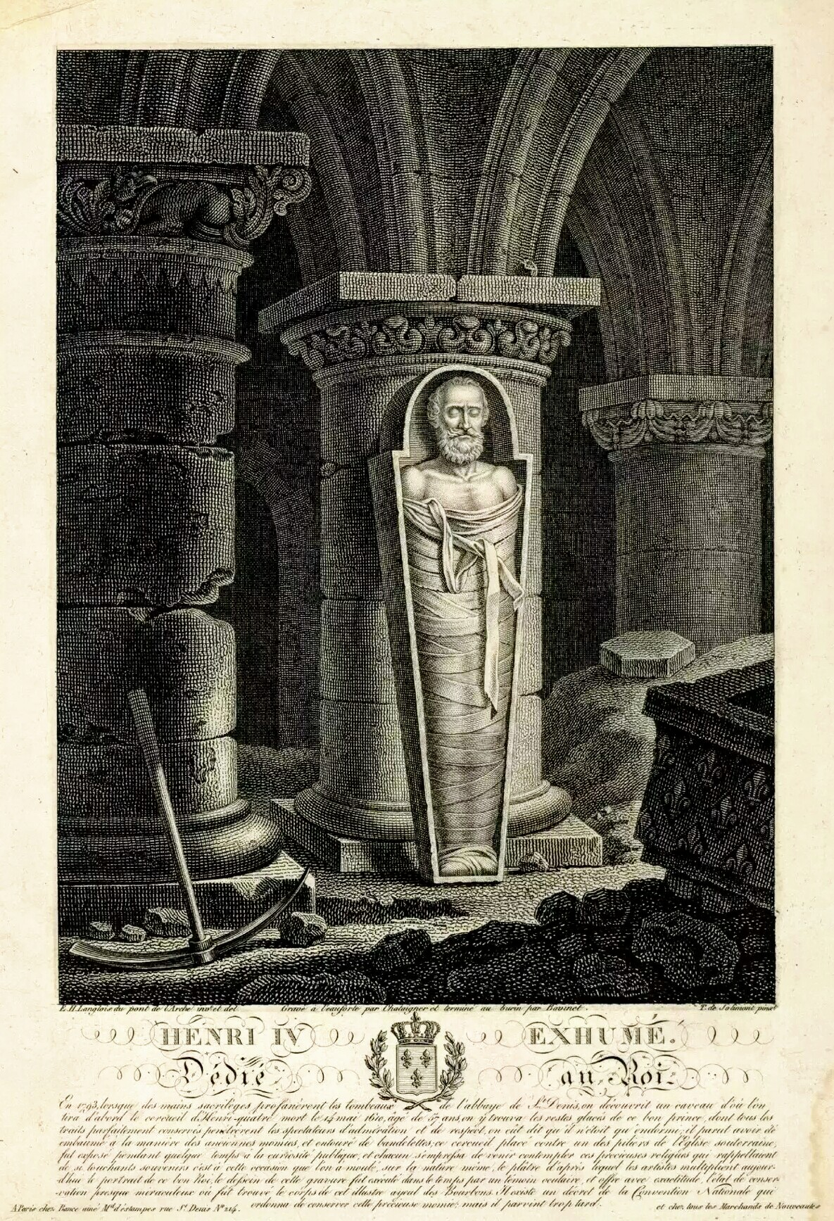 Henri IV exhumé/ Dédié au Roi by Langlois from a painting by François Gabriel Théodore Basset de Jolimont.